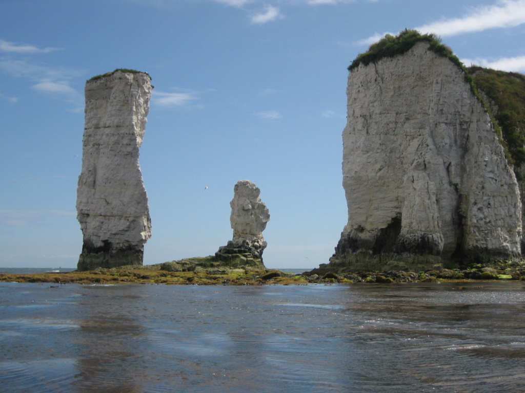 A view of Old Harry shot from the north Studland Bay side whilst in a canoe, July 2008 using a Canon Ixus 55.